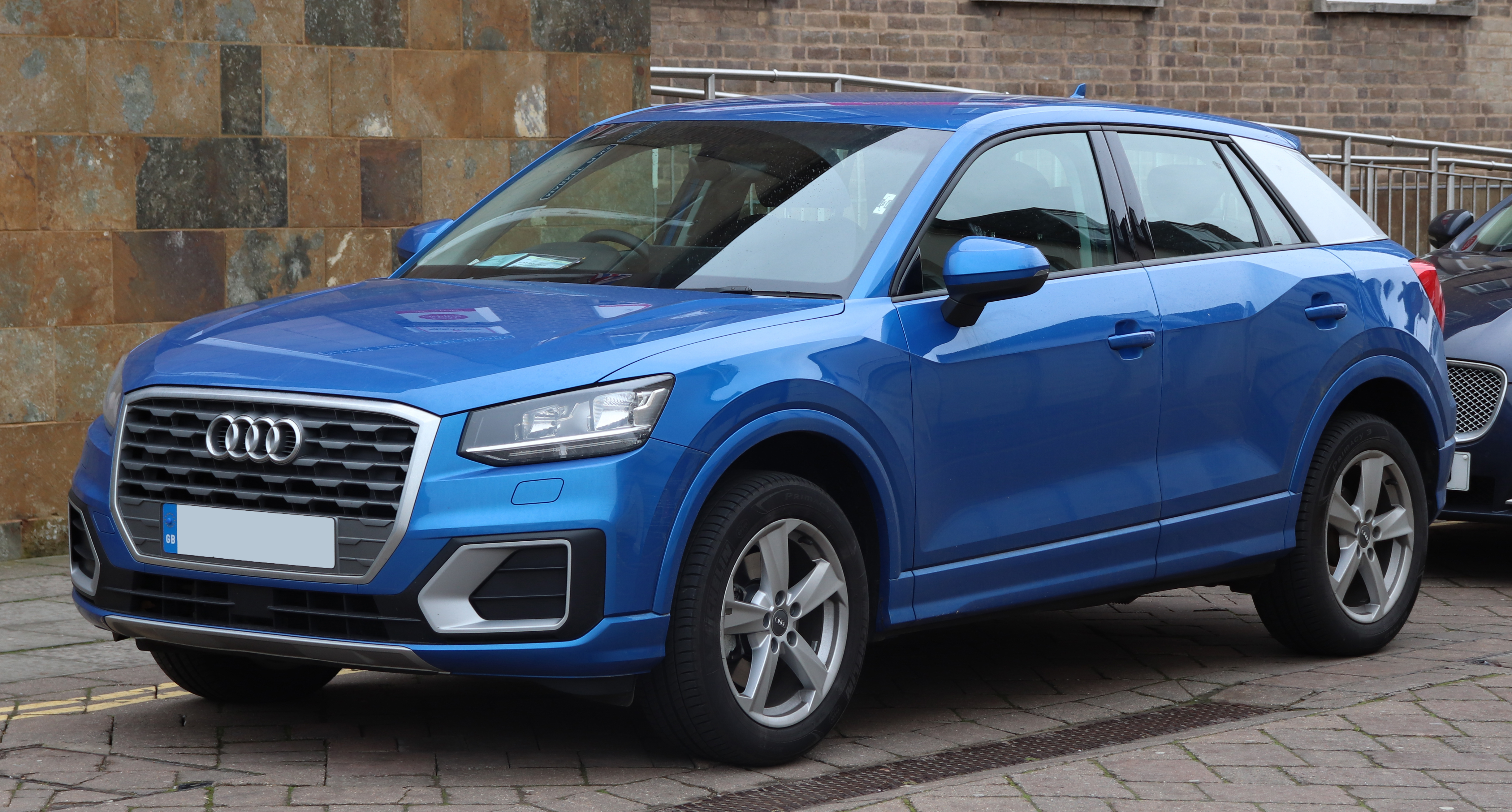 2017 Audi Q2 Sport TDi 1.6 Front Taken in Warwick